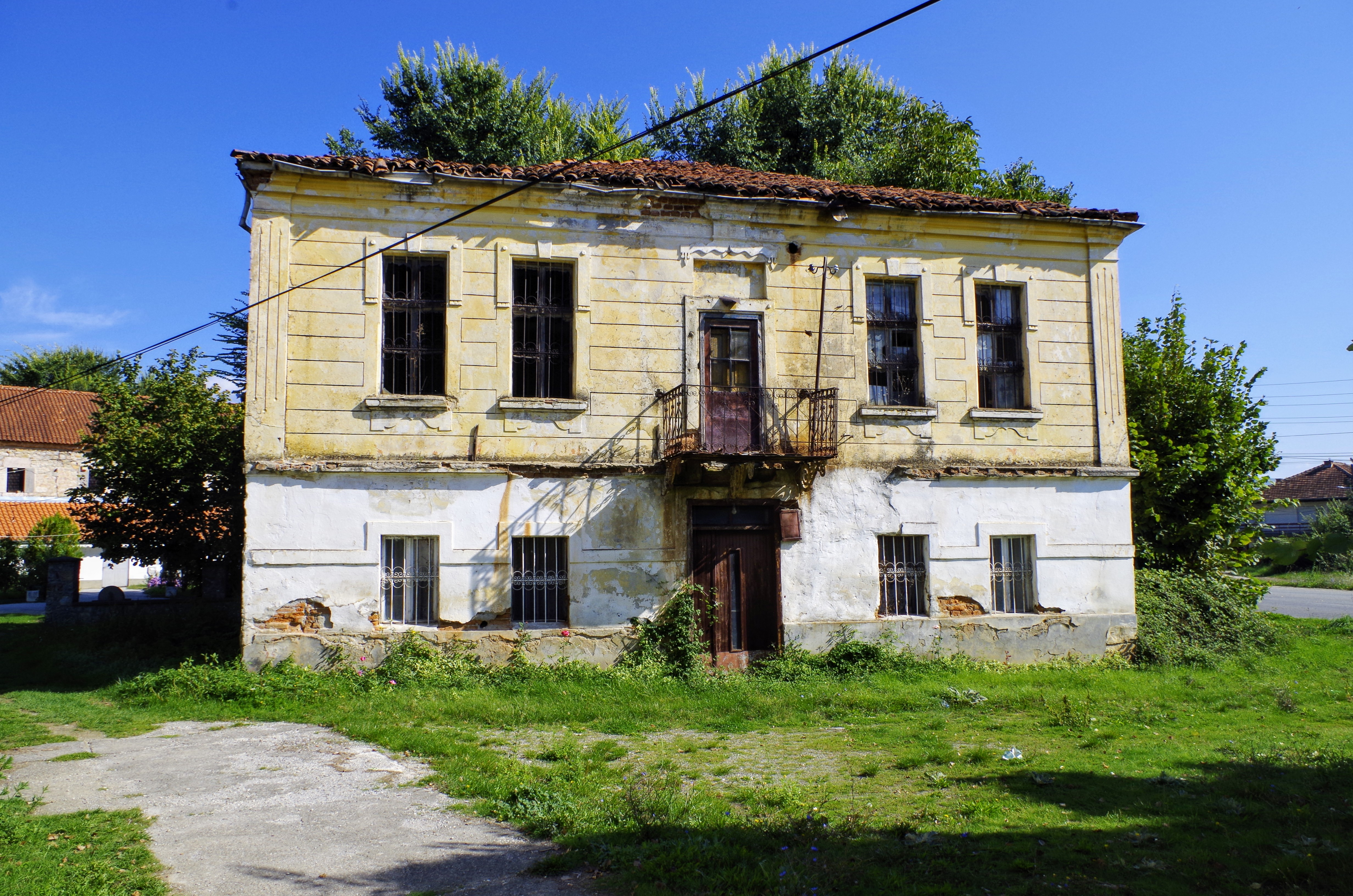 View of the village Carev Dvor